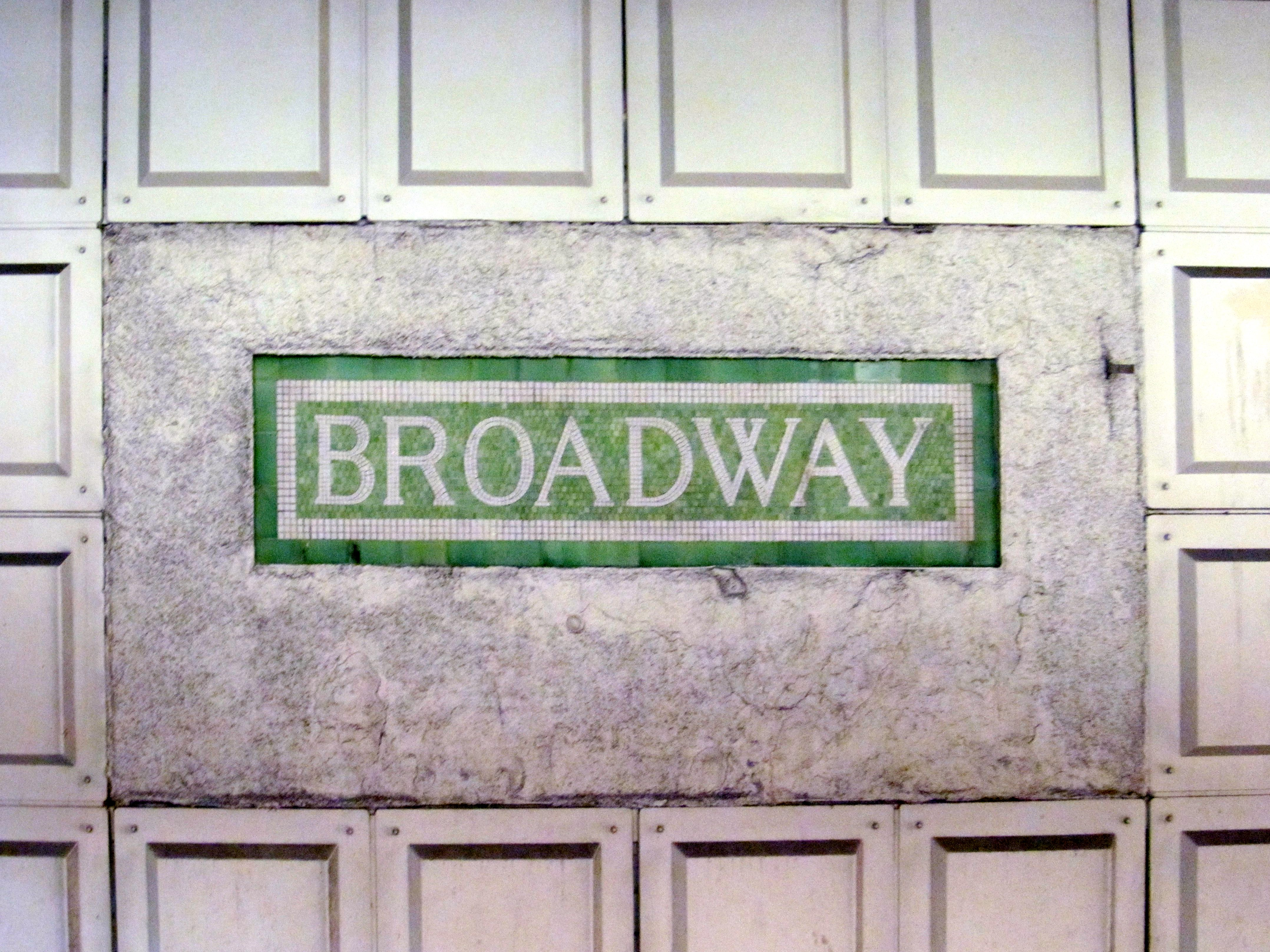 Titled station sign on the inbound side at Broadway